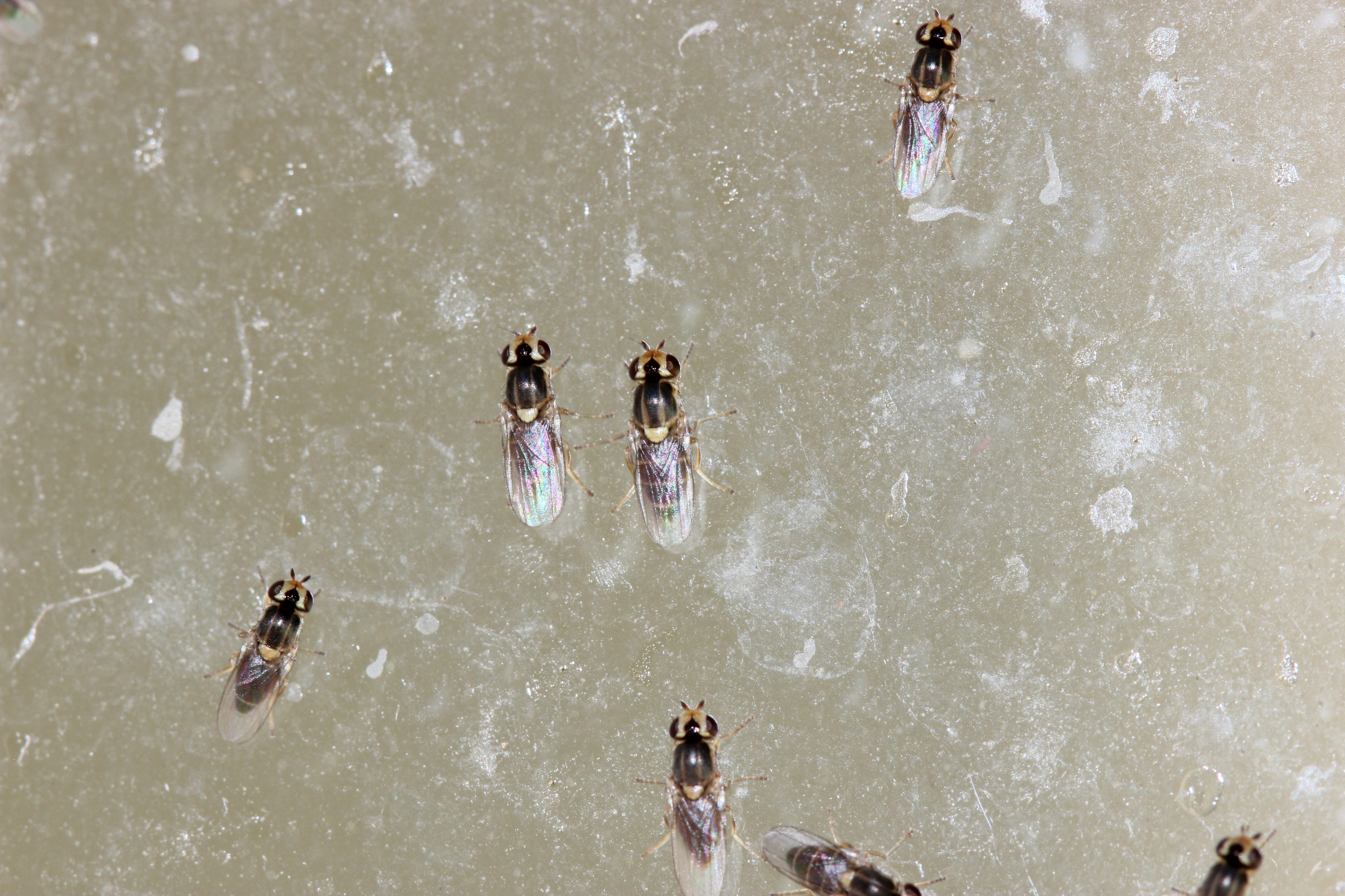 Chloropidae Unidentified species assembling on window Dorsal aspect